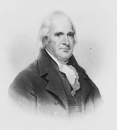 George Clinton, head-and-shoulders portrait, facing right / painted by Ames ; engraved by Buttre.